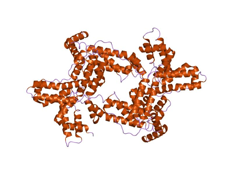 Cartoon representation of the molecular structure of protein registered with 1kw2 code.